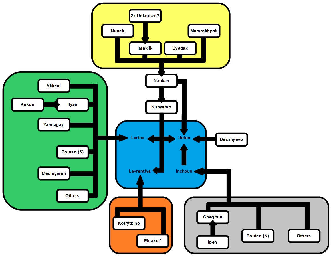 A flow chart showing how the closure of villages in Chukotsky District Chukotka resulted in a significant reduction in populated places.